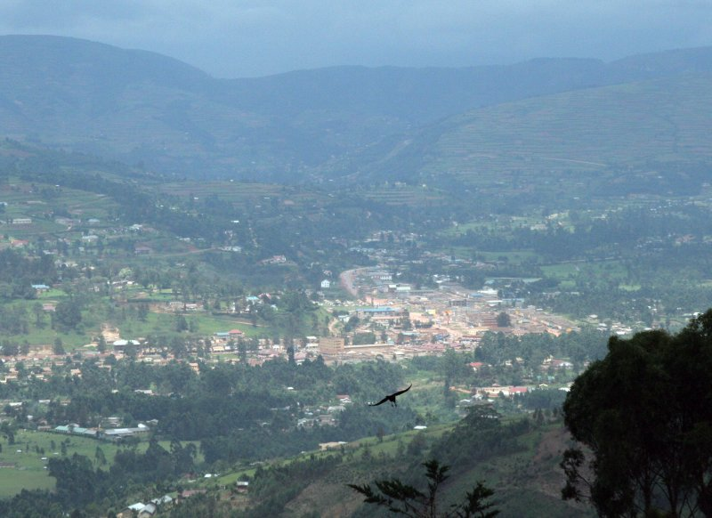 (Kabale_Town,own work,10.10.06,Edirisa)